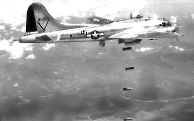 Gleaming in the warm sunlight, B-17G 44-8020 was the lead aircraft for the 49th Bombardment Squadron from 23 July 1944 until VE-Day. Seen dropping 500-lb RDX bombs just weeks after its arrival in the MTO. the aircraft had its radar 'dustbin' extended, although the lack of cloud on this particuiar day would surely have meant that the bombardiers attacked using their Norden sights. (USAAF Photograph)